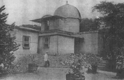 Natal Observatory (1903)//(View of the Natal Observatory from the North East. Note the small veranda constructed around the Transit Room. Director Nevill in the foreground. The photo was published in the Natal Illustrated Railway Guide of 1903)